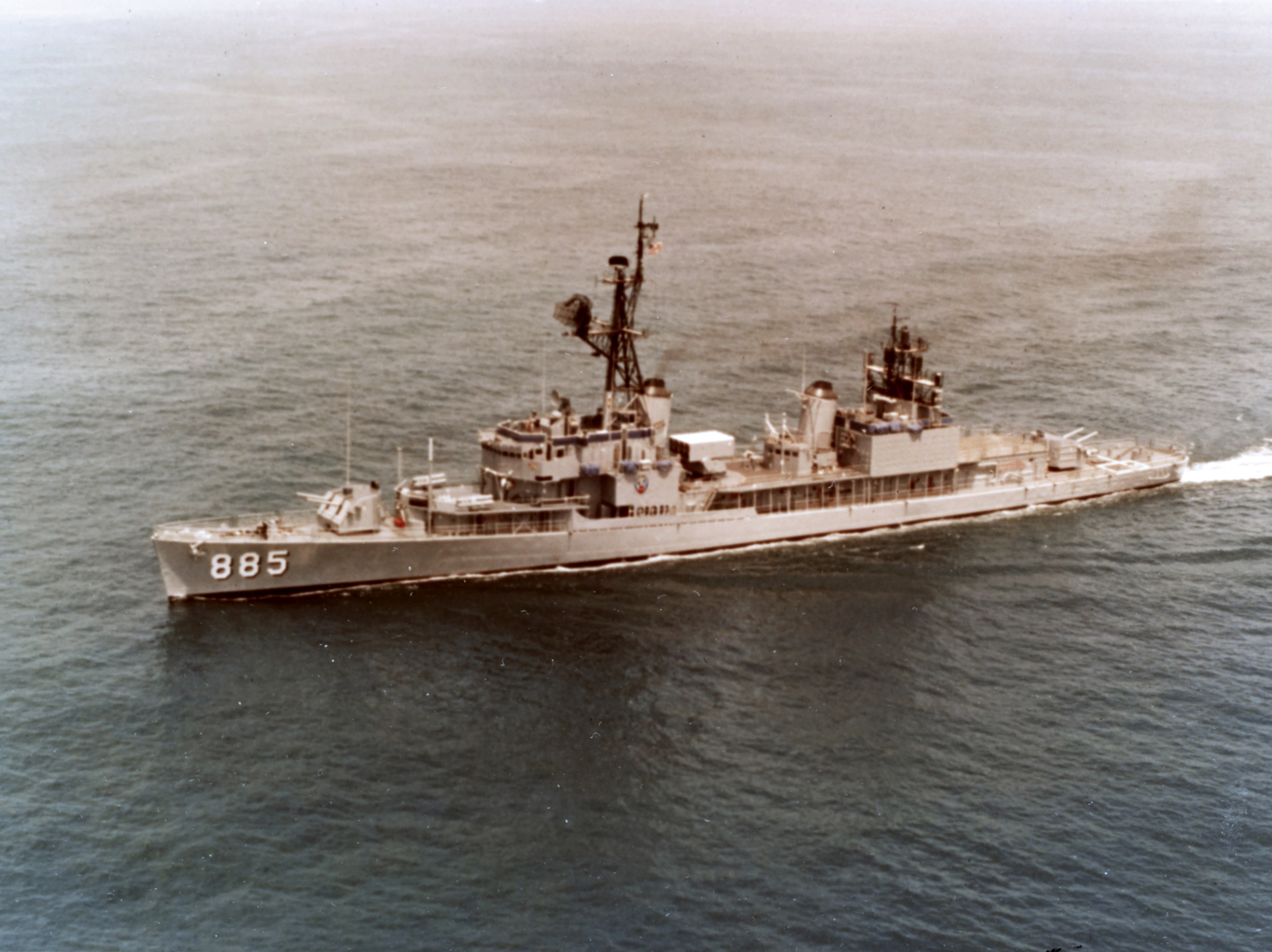 The U.S. Navy destroyer USS John R. Craig (DD-885) underway in the Pacific Ocean on 30 March 1978.